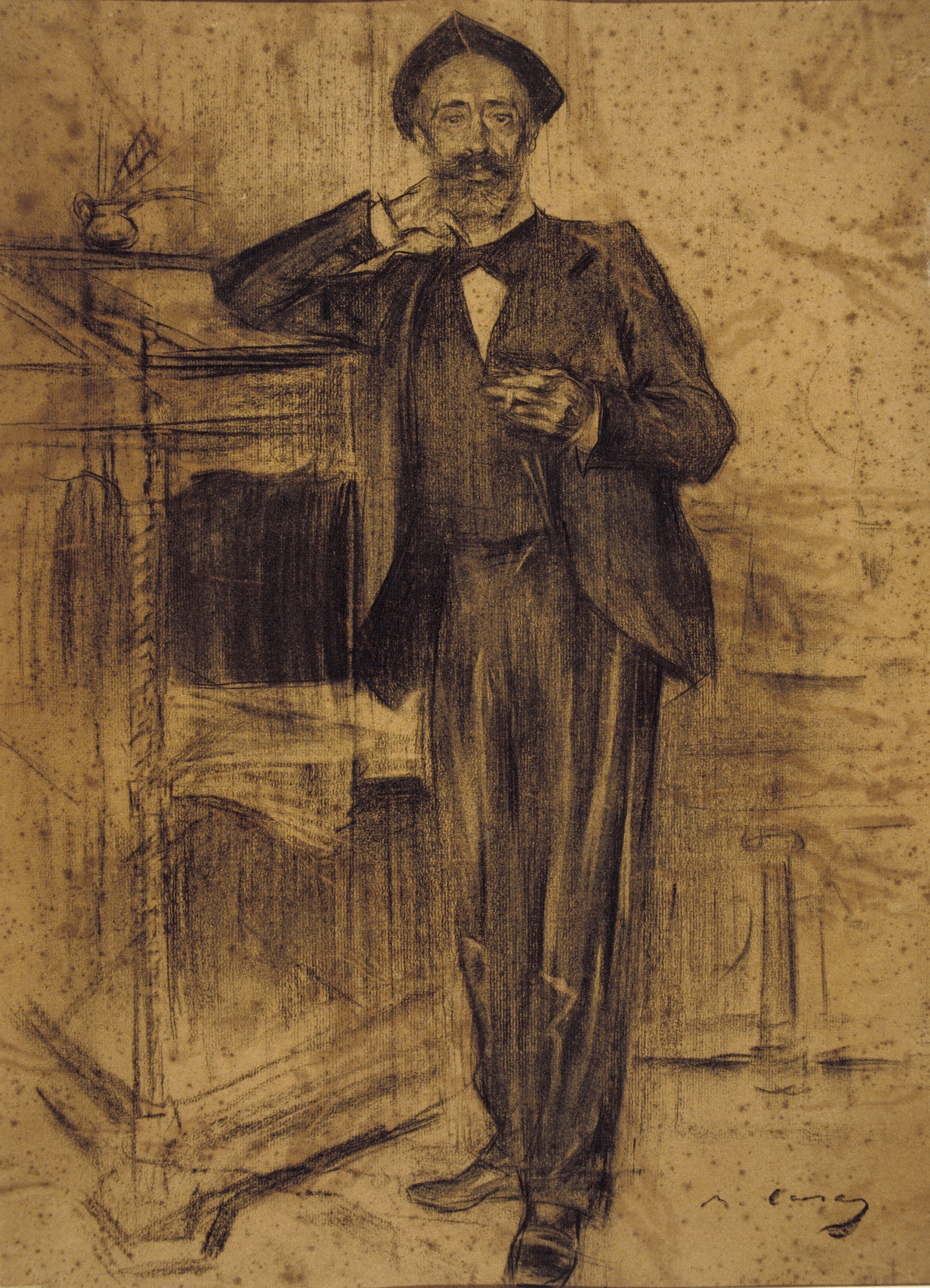 Portrait by Ramon Casas conserved at MNAC in Barcelona.